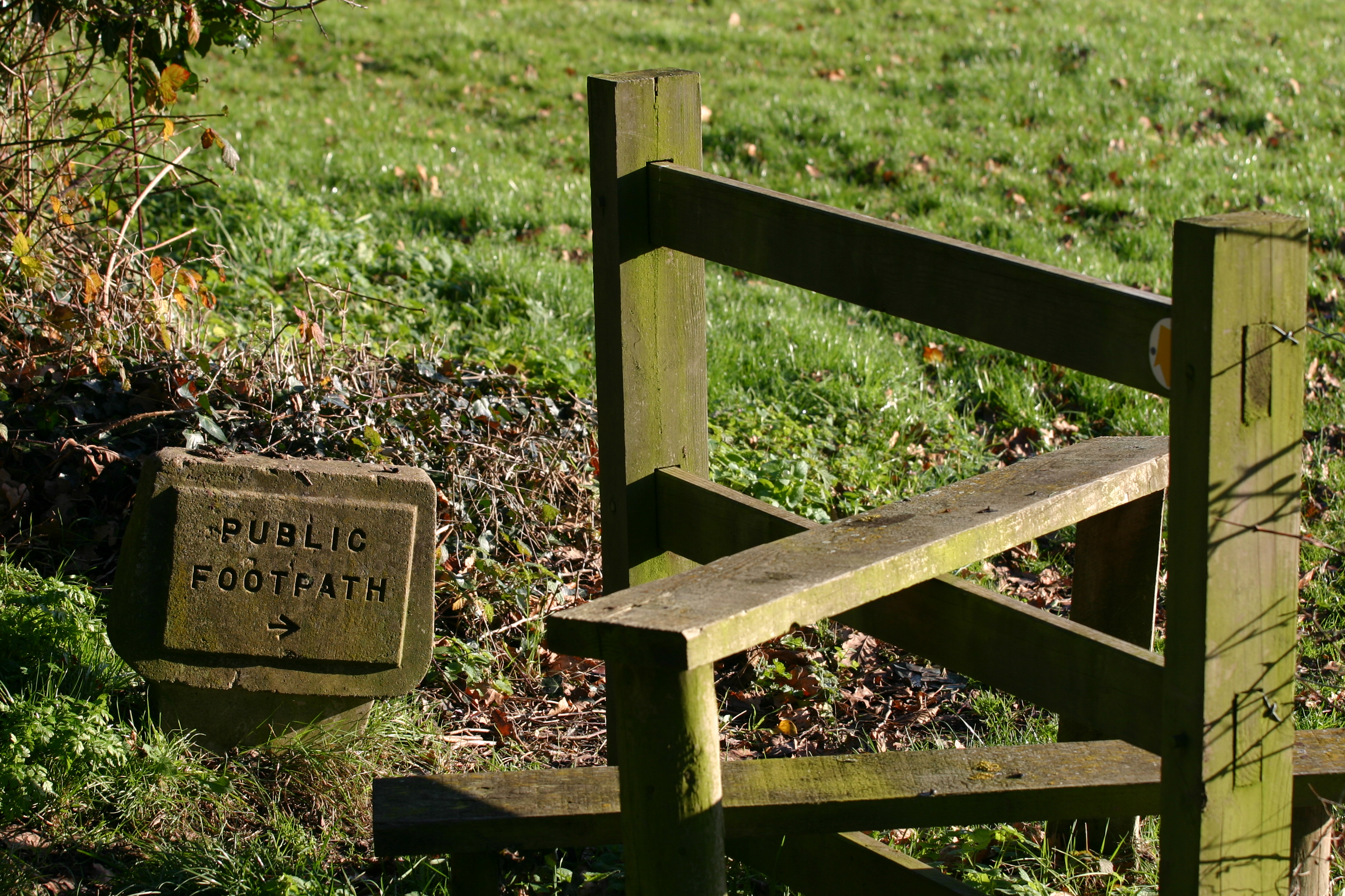 A stile somewhere in Kent. I forget where. By me.